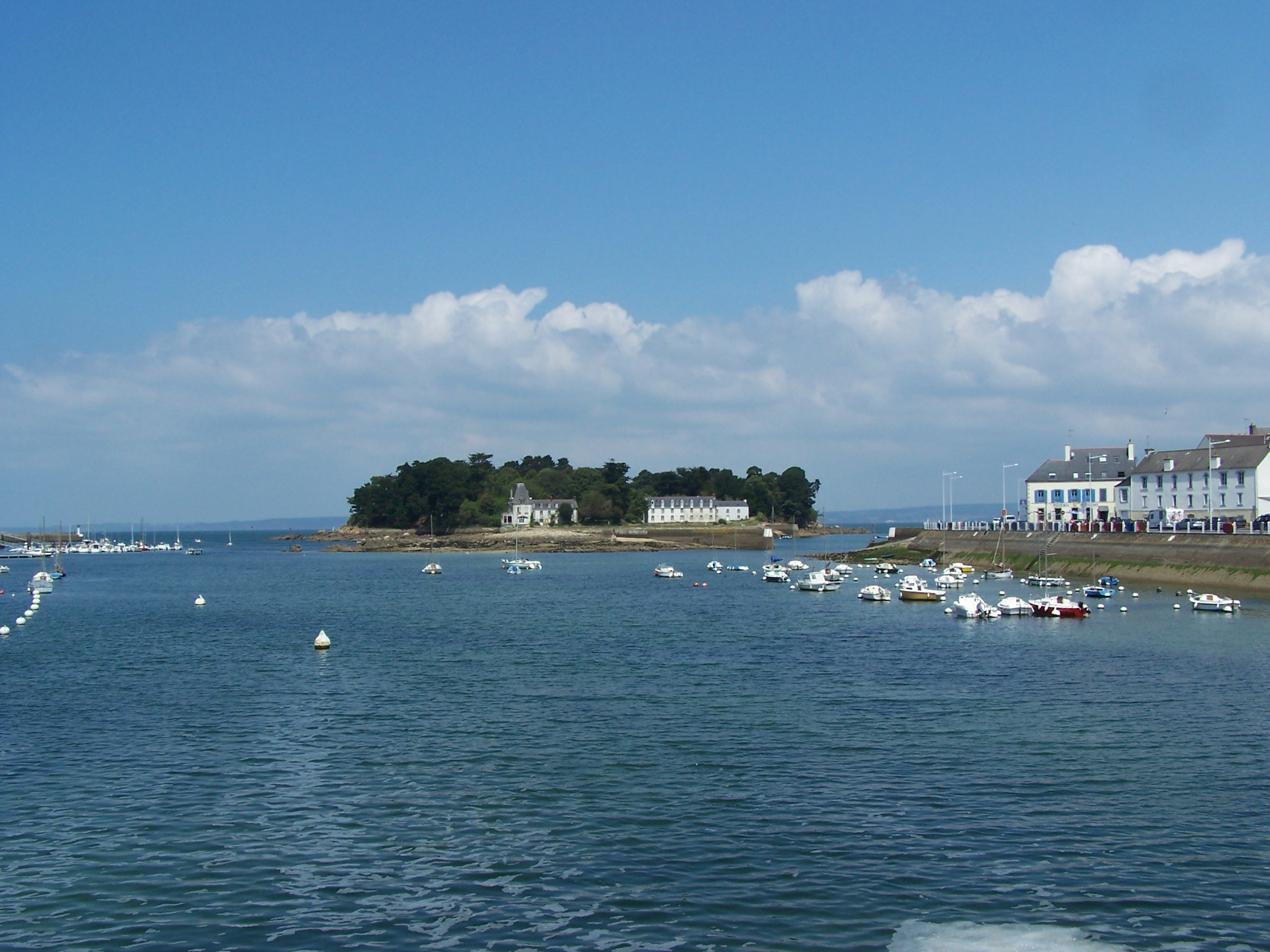 Île Tristan at Douarnenez viewed from Port-Rhu.